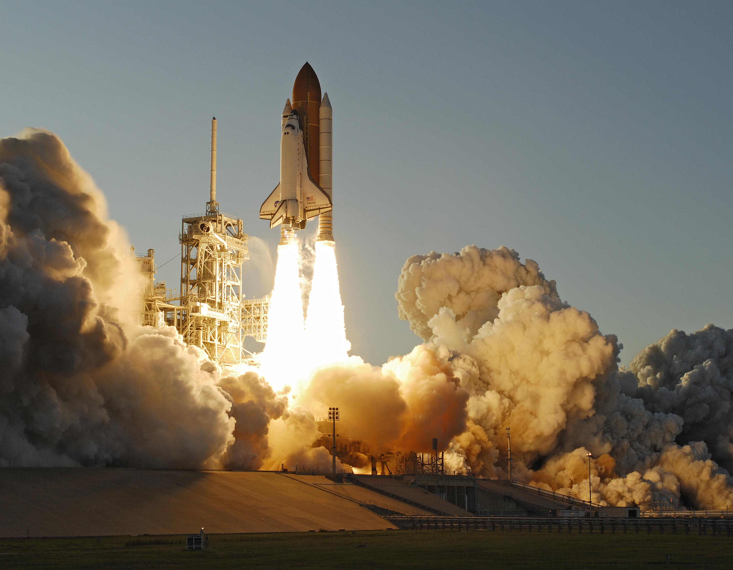 Launch of Space Shuttle Atlantis on STS-117